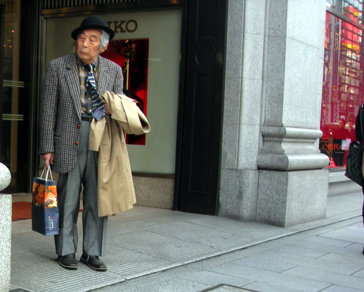 A cool old guy in ginza, Tokyo